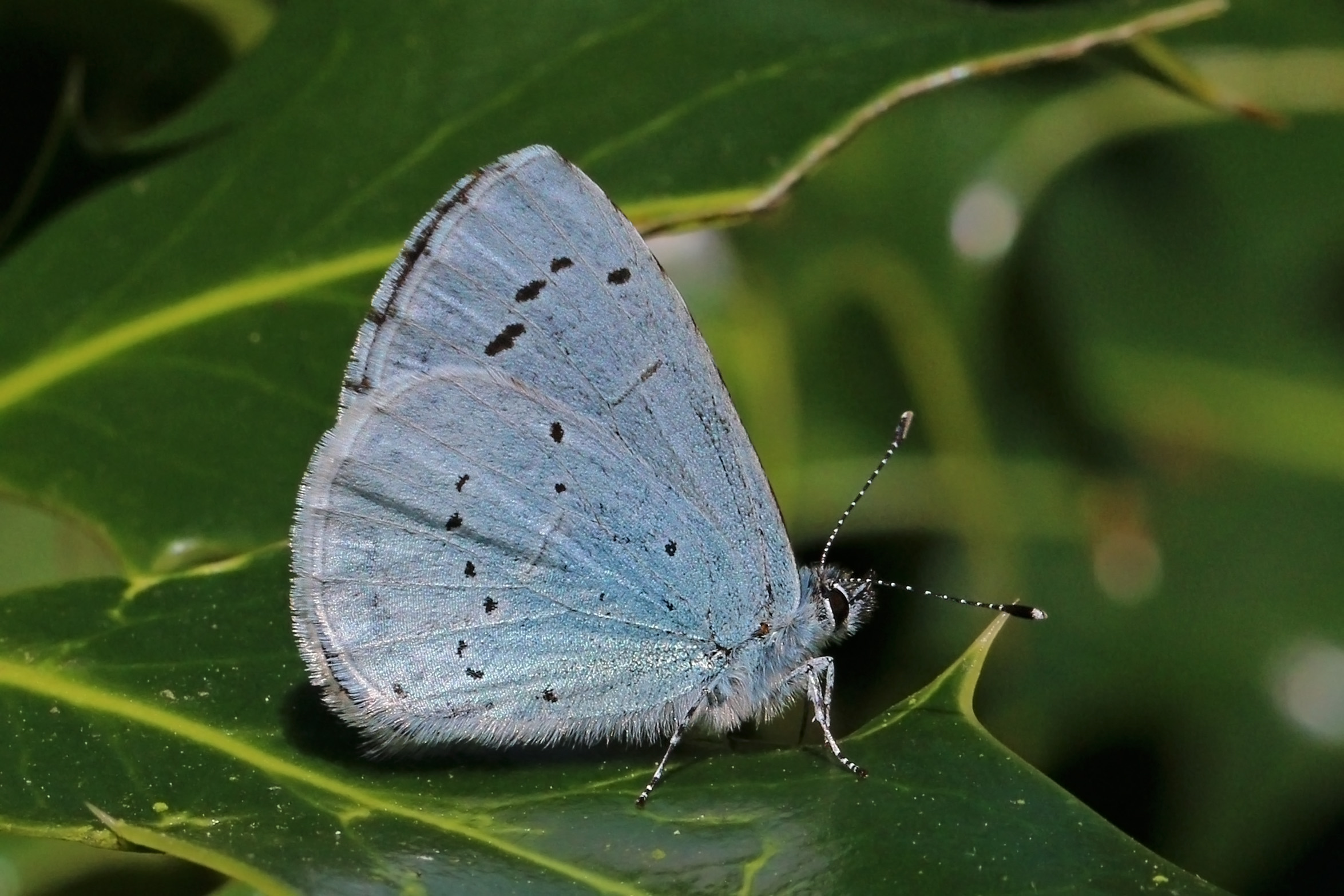 Holly blue (Celastrina argiolus) male, Cumnor, Oxfordshire